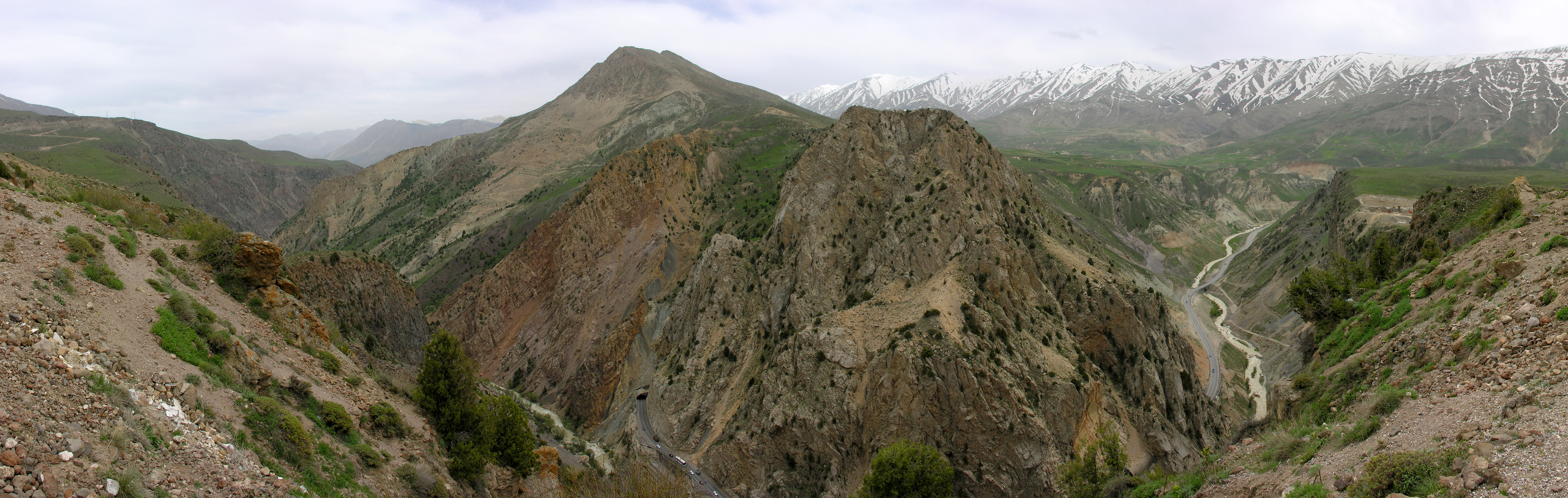 Iran, Road from Tehran to the Caspian Sea near Zeyar